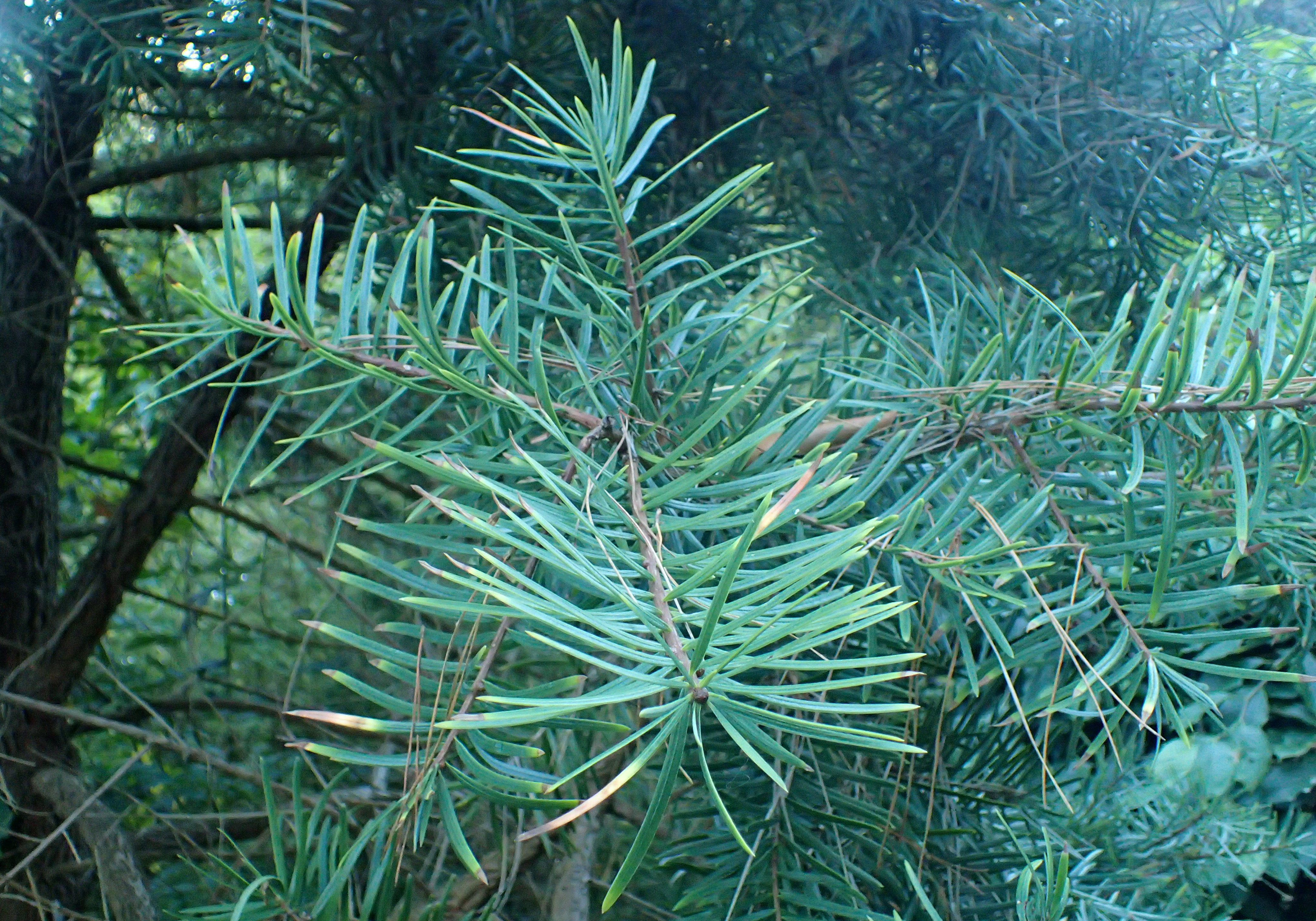 Keteleeria evelyniana in the San Francisco Botanical Garden